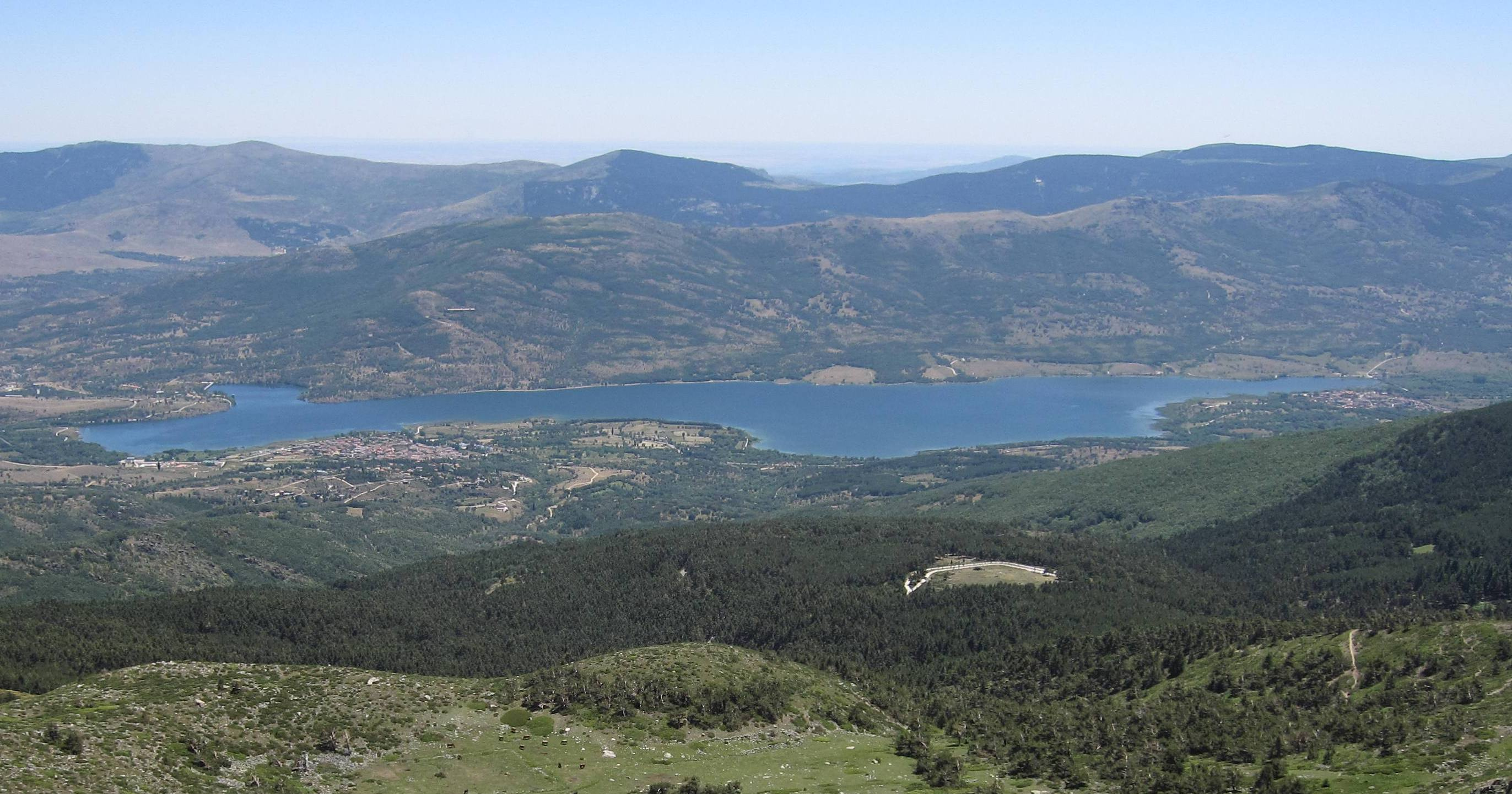 Pinilla dam seen from close to El Nevero (Community of Madrid, Spain).